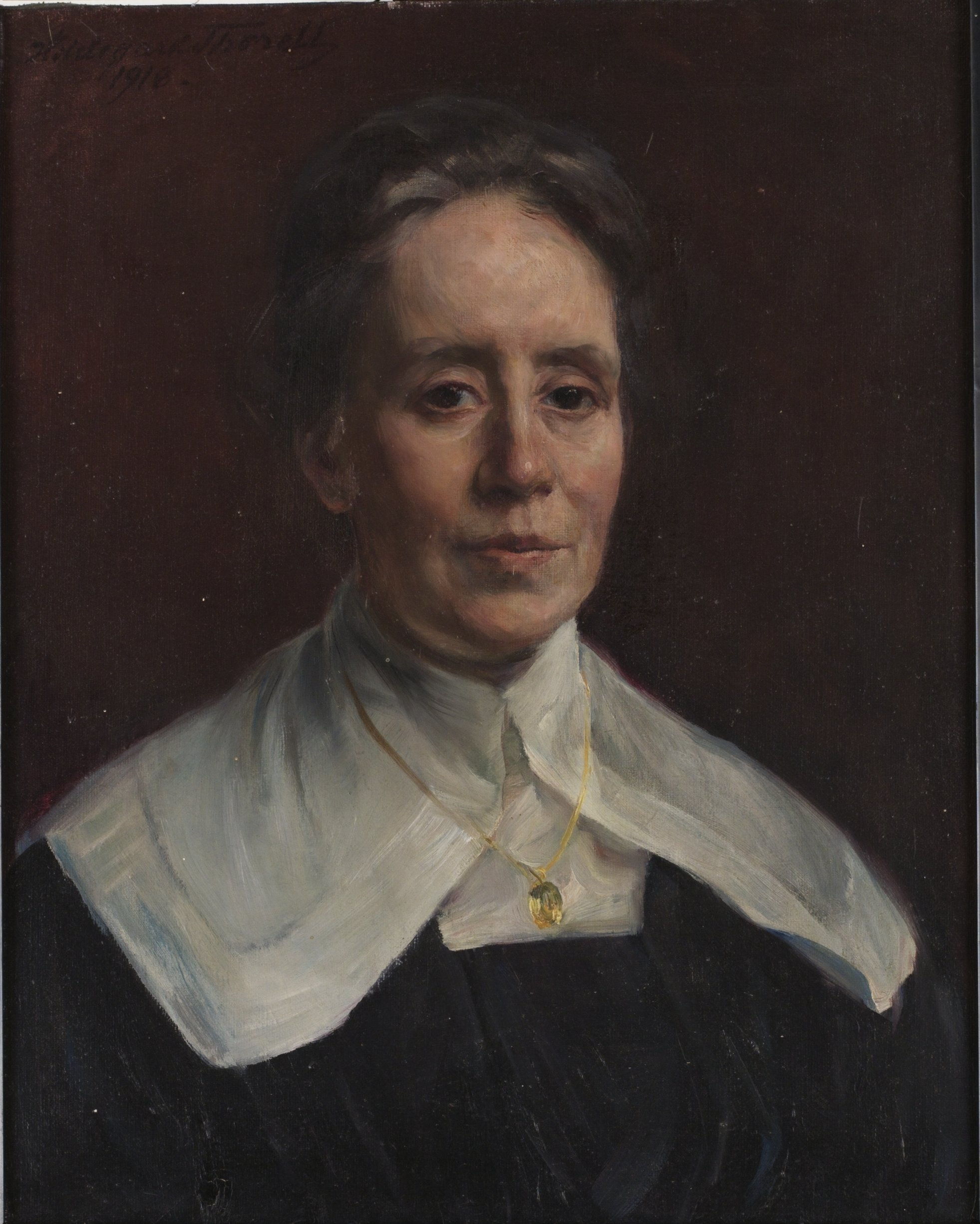 Fanny Brate